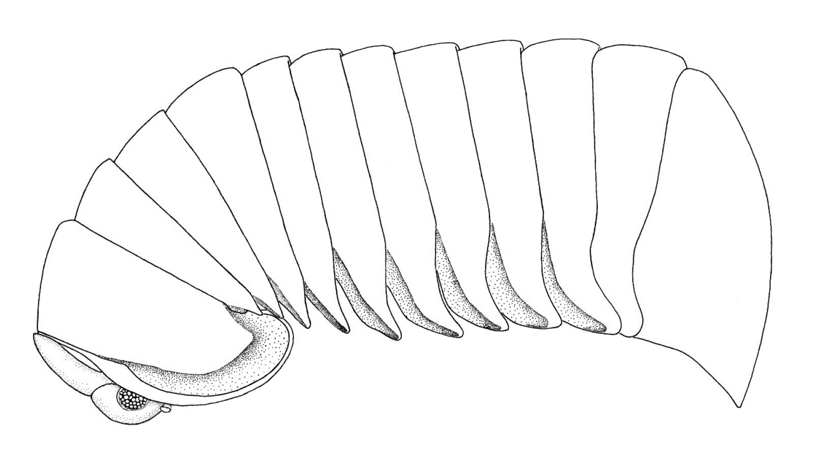 Sphaeromimus titanus, female